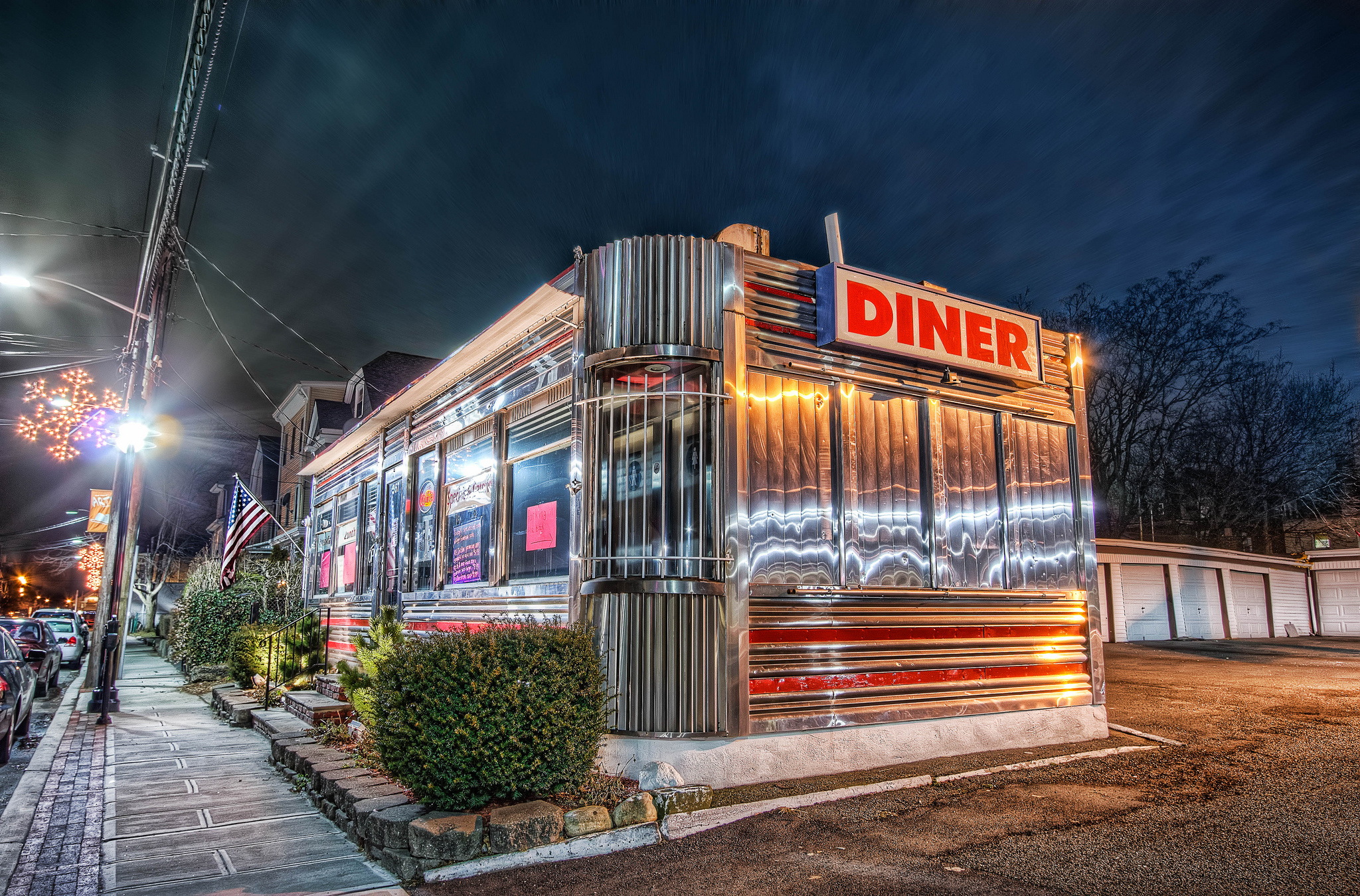 Interesting retro-styled Diner in the town of Orange, NJ